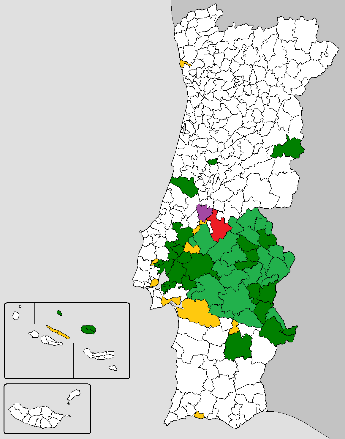 Portuguese municipalities where tauromachy has been been declared Immaterial Cultural Heritage. Municipalities that are members of the Section of Municipalities with Tauromachic Activities of the National Association of Portuguese Municipalities (ANMP). Municipalities that are members of the Section of Municipalities with Tauromachic Activities, but have not declared tauromachy as immaterial cultural heritage. Municipalities that are members of the Section of Municipalities with Tauromachic Activities, but have rejected to declare tauromachy as immaterial cultural heritage (Tomar). Municipalities that are not members of the Section of Municipalities with Tauromachic Activities and have have rejected to declare tauromachy as immaterial cultural heritage (Abrantes).